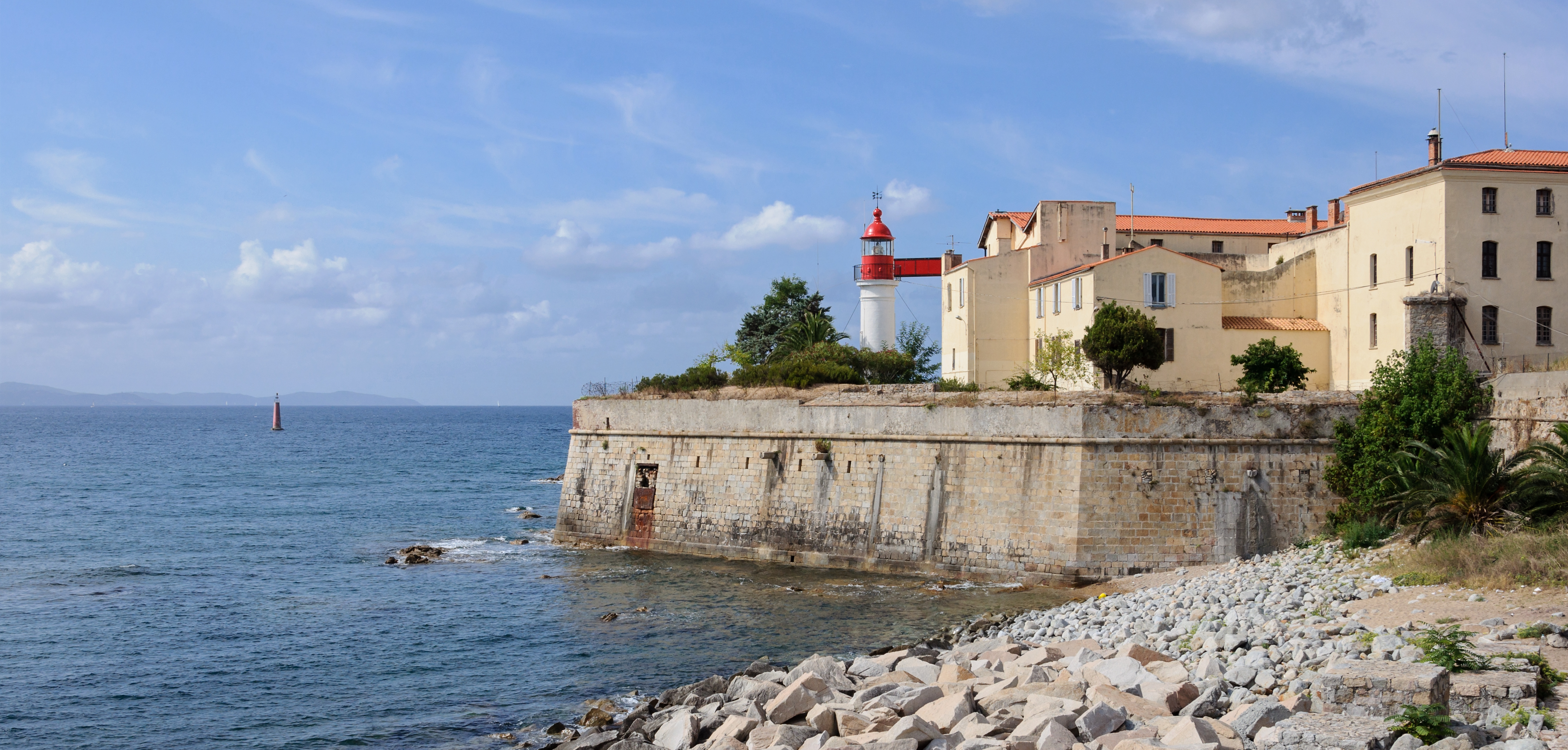 The lighthouse of the citadel of Ajaccio, Southern Corsica, France. Its range is 16 nautical miles (30 km). At sea, in front of the citadel, stands a complementary light with a range of 7 miles (13 km).